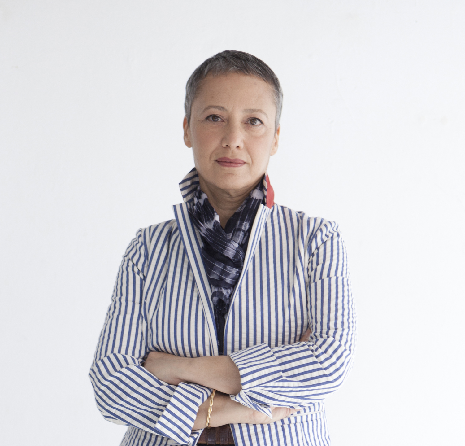 Portrait of the designer Ilana Efrati